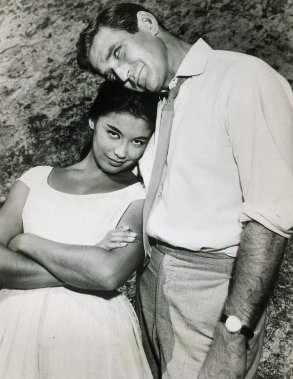 France Nuyen & Rod Taylor in Hong Kong - publicity still